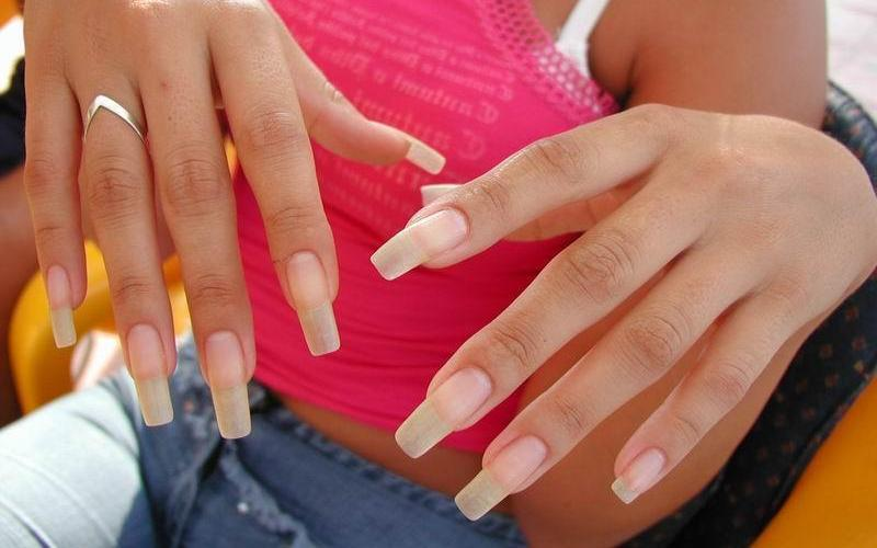 Took the photo